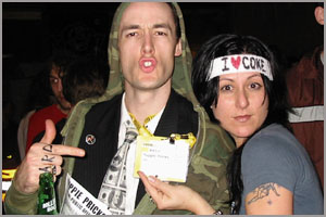 Yuppie Pricks live photo Source From the Yuppie Pricks official-site [1].